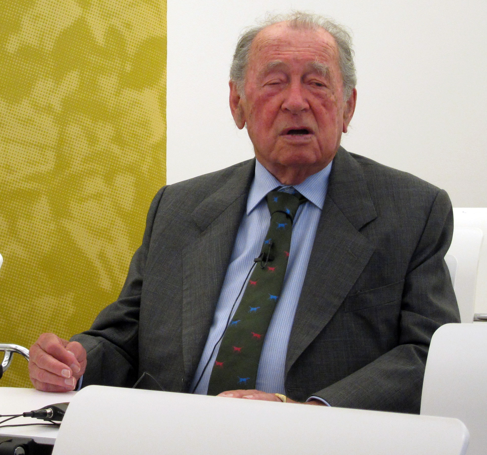 Anthony de Jasay. hungarian philosopher during an interview in Madrid